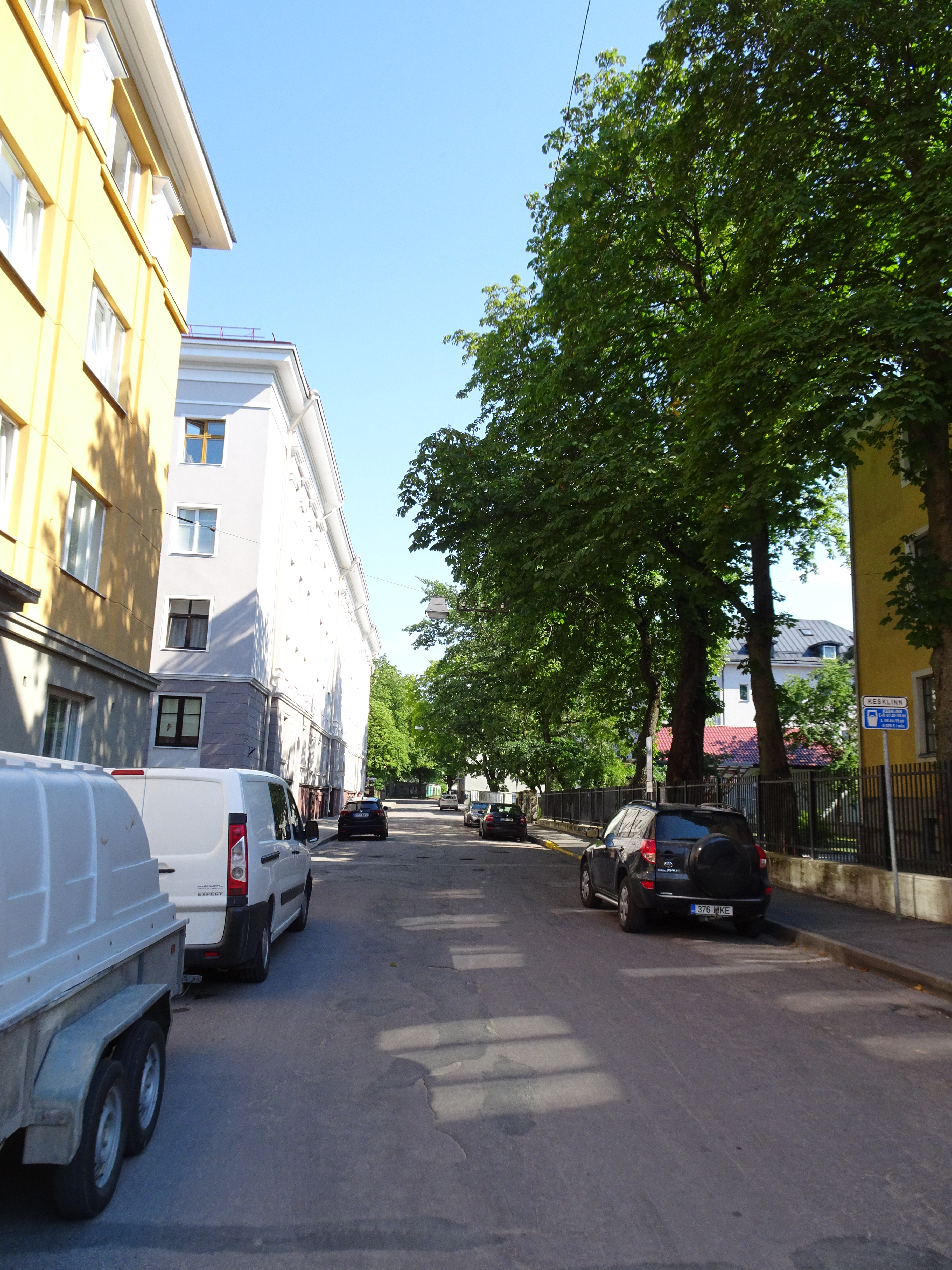 Jakob Pärna Street (Jakob Pärna tänav) in Tallinn, Estonia